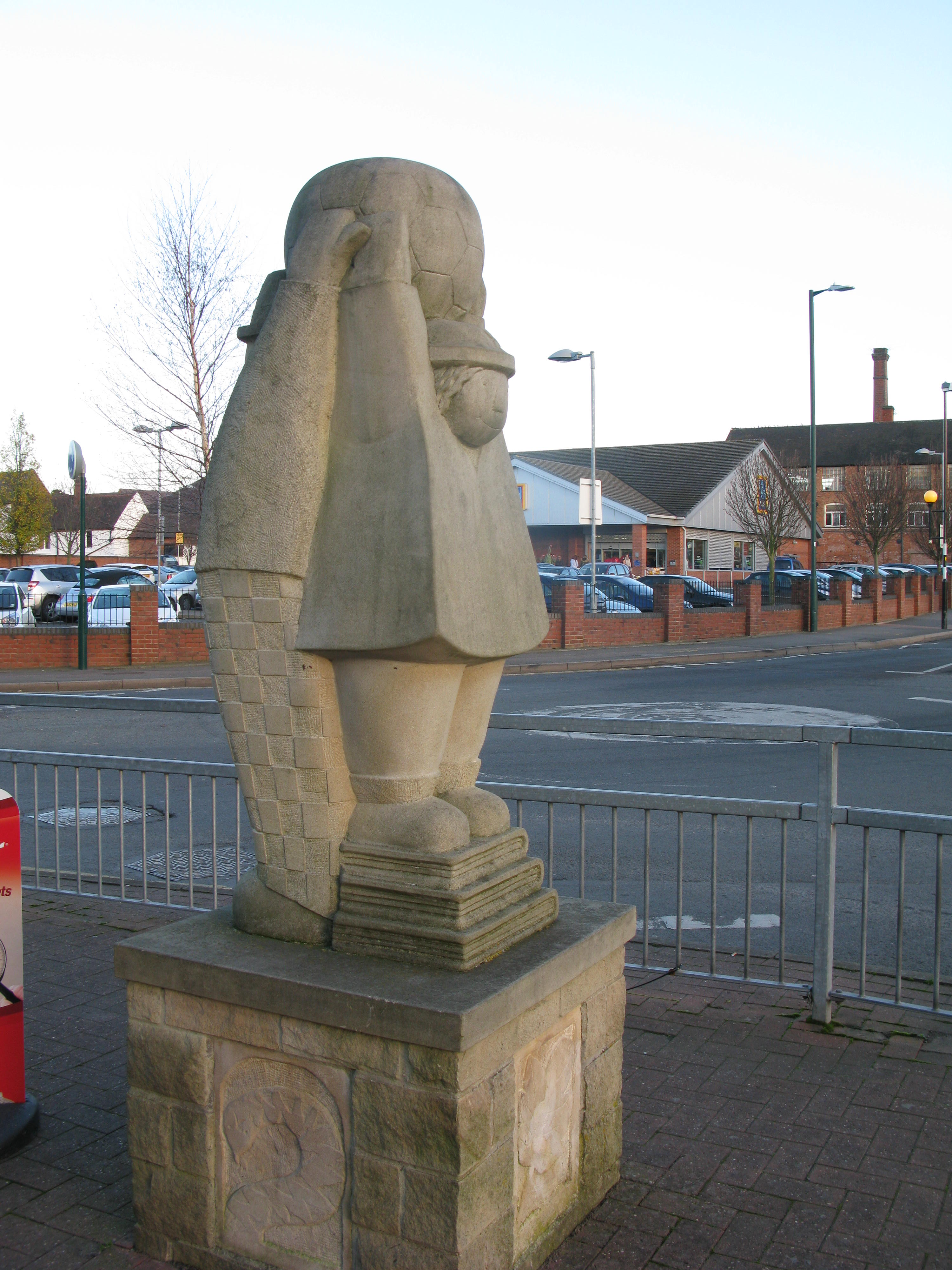 outside the Co-op. There is a plaque attached to the railings explaining its significance. The artist is Michael Disley. The sculpture's figures, an adult and a child wear hats to signify Atherstone's past place in the hattingand felting industry. The child stands on apile of books to signify the town's place as a centre of learning since the 16th century and the recent booktown initiative. Carvings on the plinth depict items of cultural significance suggested by the local population